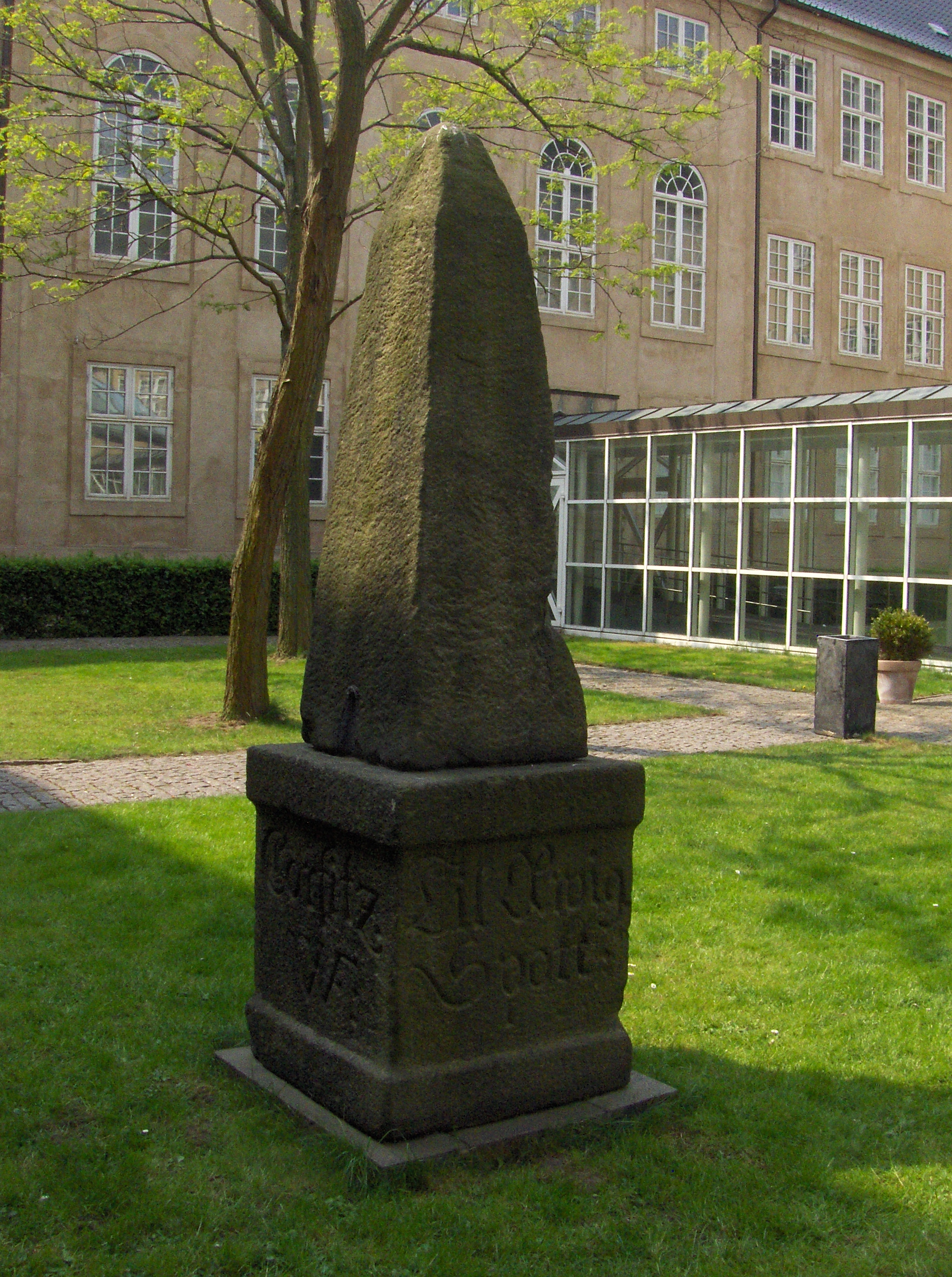 This image was provided to Wikimedia Commons by Nationalmuseet as part of an ongoing cooperative project. The artifact represented in the image is part of the collection of Nationalmuseet. English | +/−